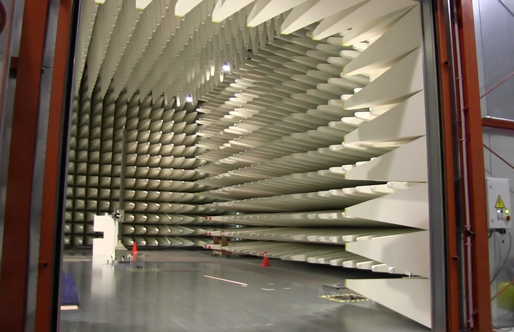 The large drive-in EMC anechoic test chamber at EMC Technologies in Victoria, Australia.